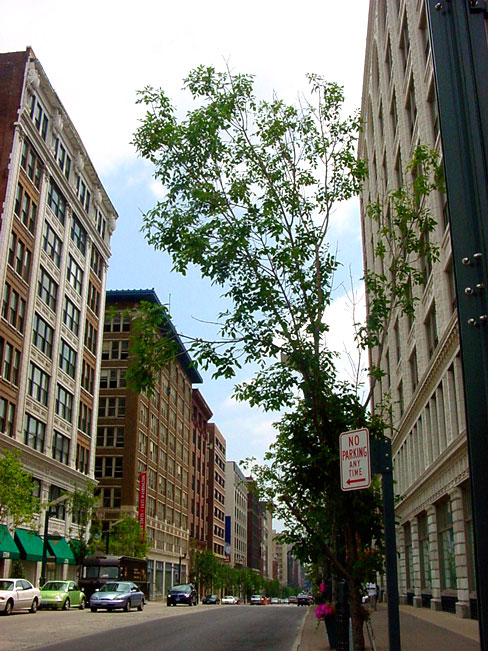 St. Louis MO Ralph Moran